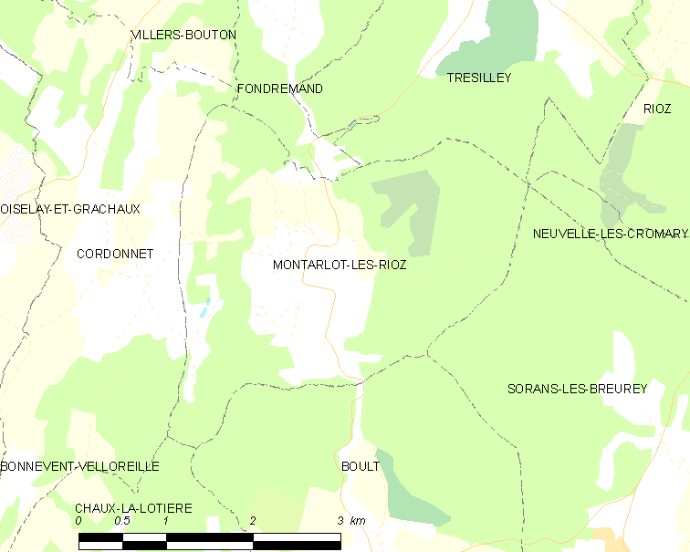 Map of French municipality